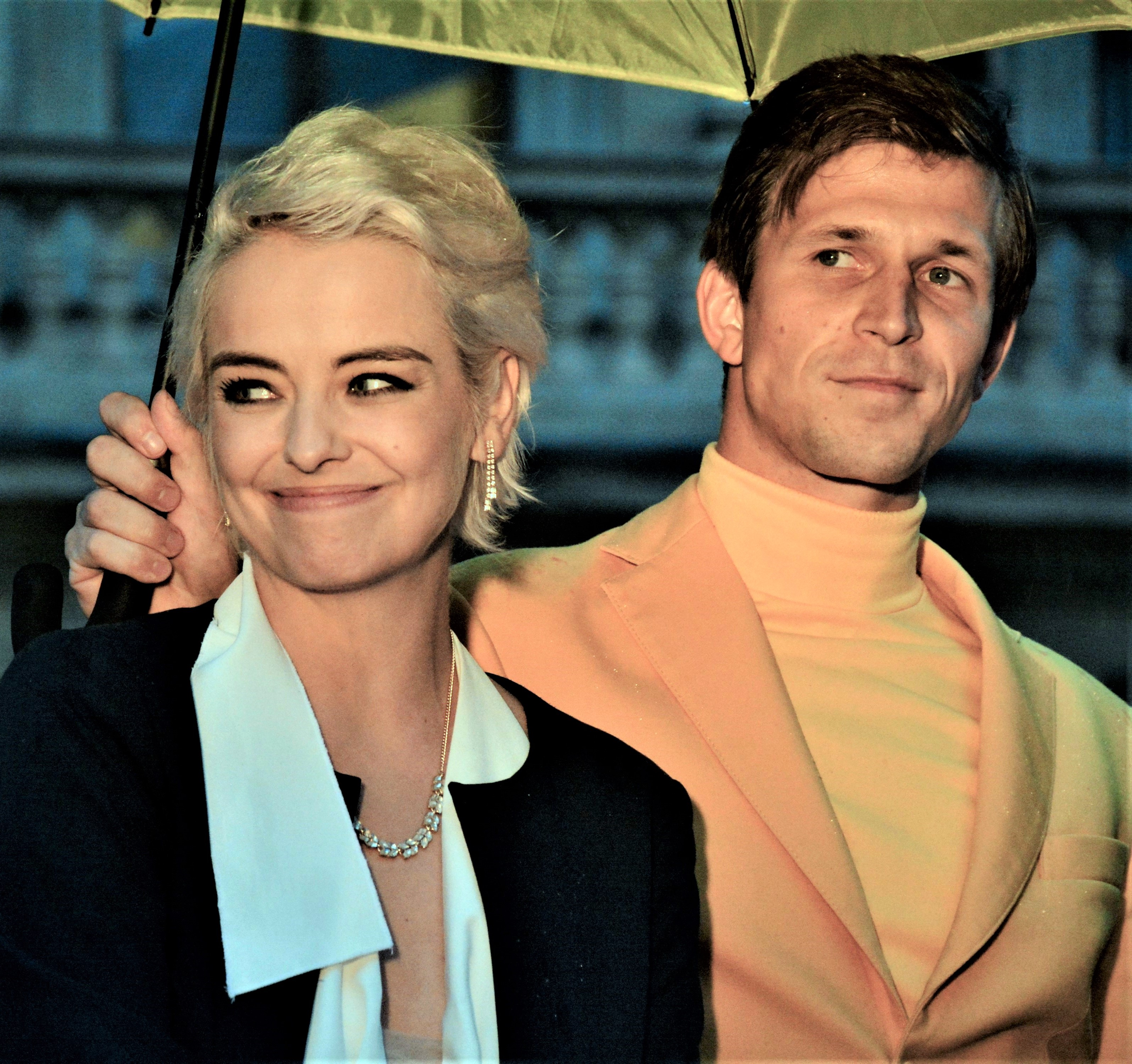 Pavla Beretová, Czech actress and Igor Orozovič, Czech actor